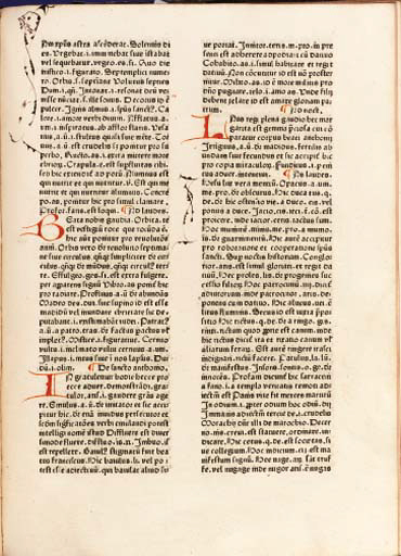 page of work